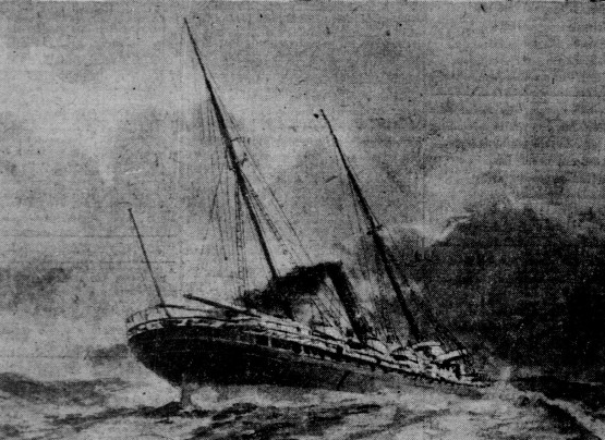 An April 1905 illustration of the SS San Juan, caught in a storm, which damaged the ship.